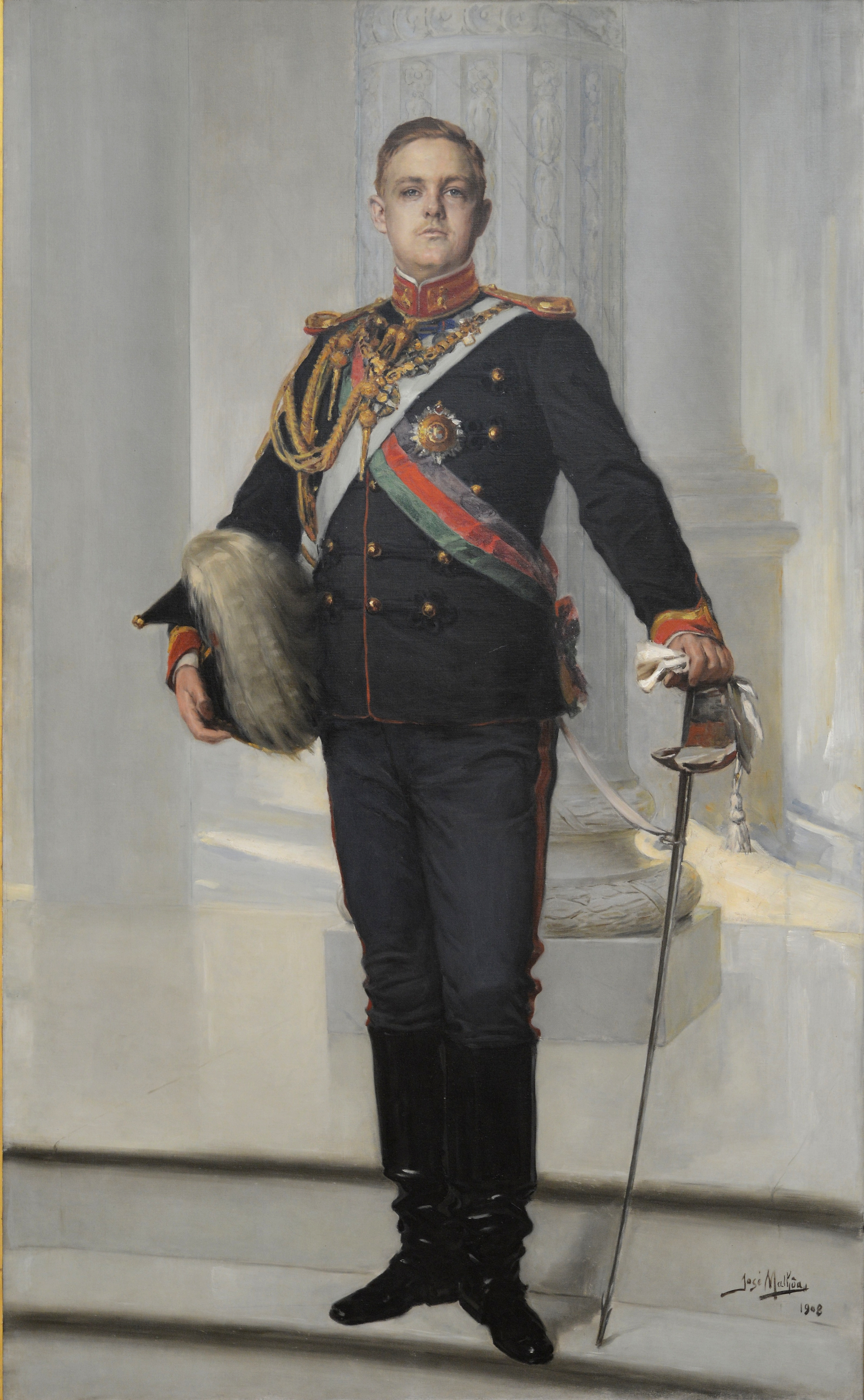 Portrait of Prince Luís Filipe of Portugal, by José Malhoa, 1908. Museum José Malhoa, Caldas da Rainha, Portugal.